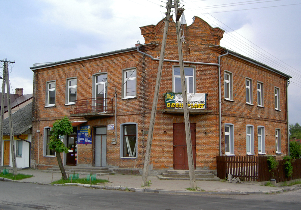 Turobin, Poland • Kamienica / Building